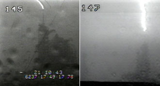 A lightning strike occurred at the lightning protection system of Launch Pad 39B on Fri., August 25, 2006, at 1:49:17 p.m. (EST). The lightning strike caused the mission management team to scrub the launch of mission STS-115 for 24 hours in order to review all electrical systems on the space shuttle and the launch pad ground support equipment.